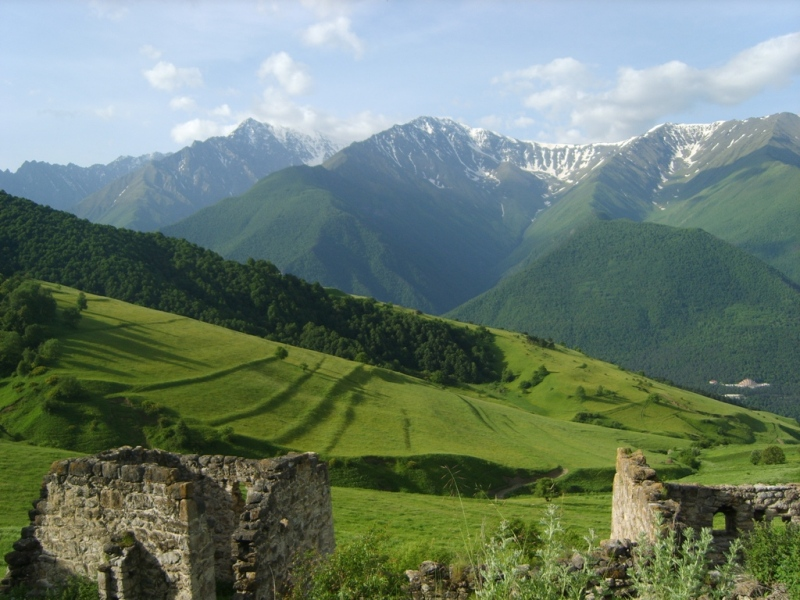 North Caucasus mountain in the Republic of Ingushetia.